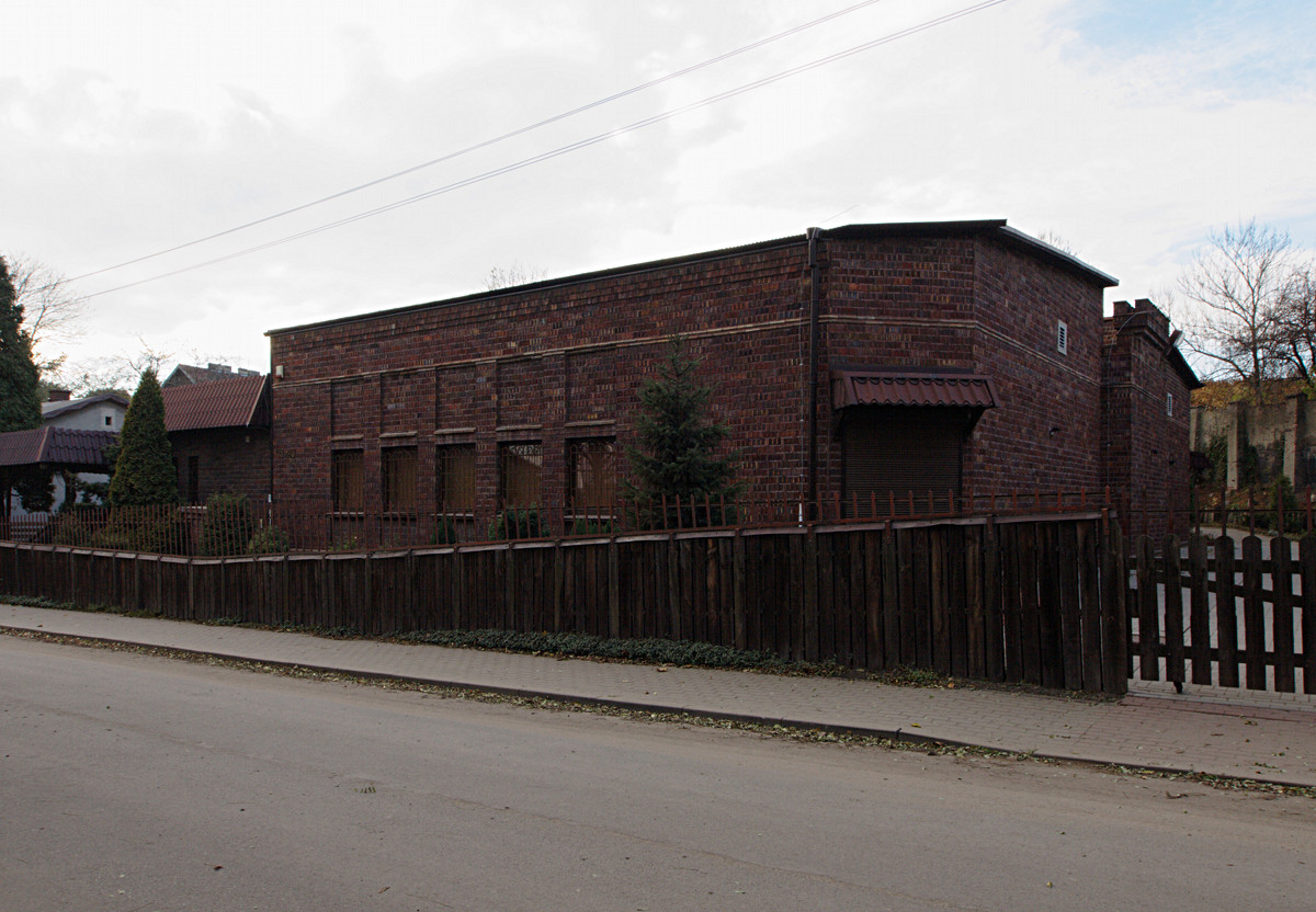 Kingdom Halls, Poland, Zabrze, Rymera Street